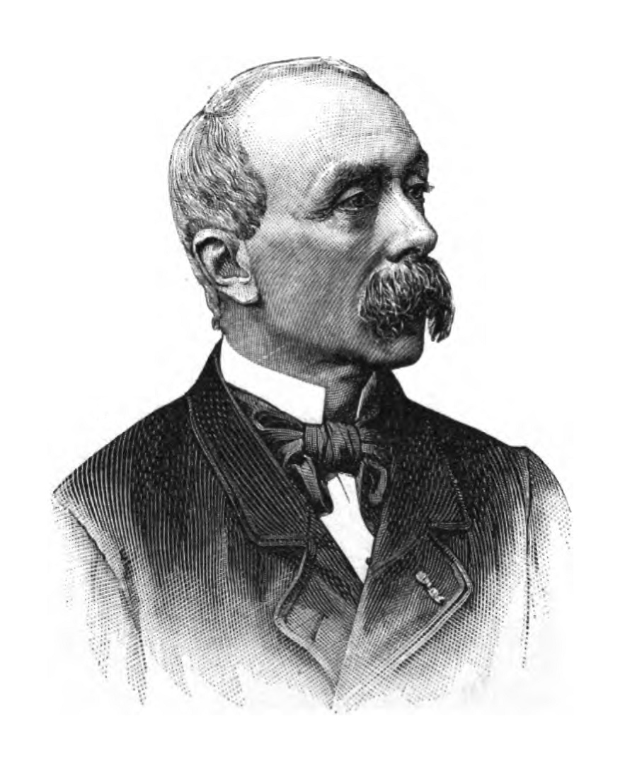 Lithography of Adolphe Orain, from his book Chansons de la Haute-Bretagne.